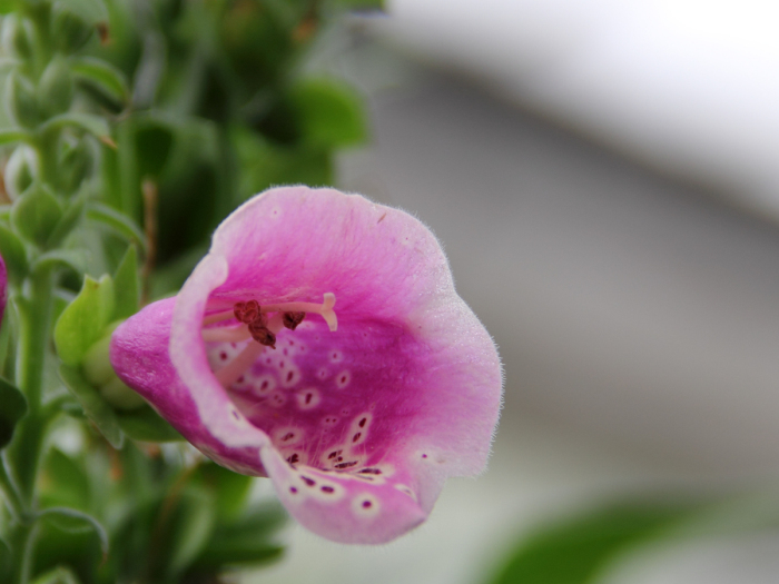 I grow a single stem or several ones in clumps, with basal rosulate leaves, in ovate or long elliptical shapes, 5-15cm long.